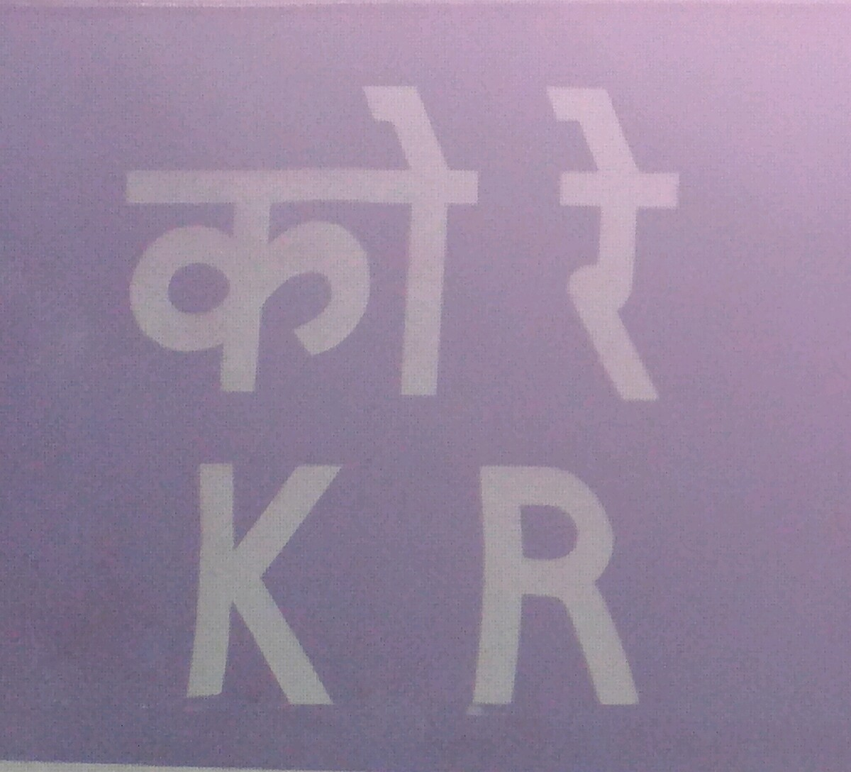 Shortened form of Konkan Railway Zone